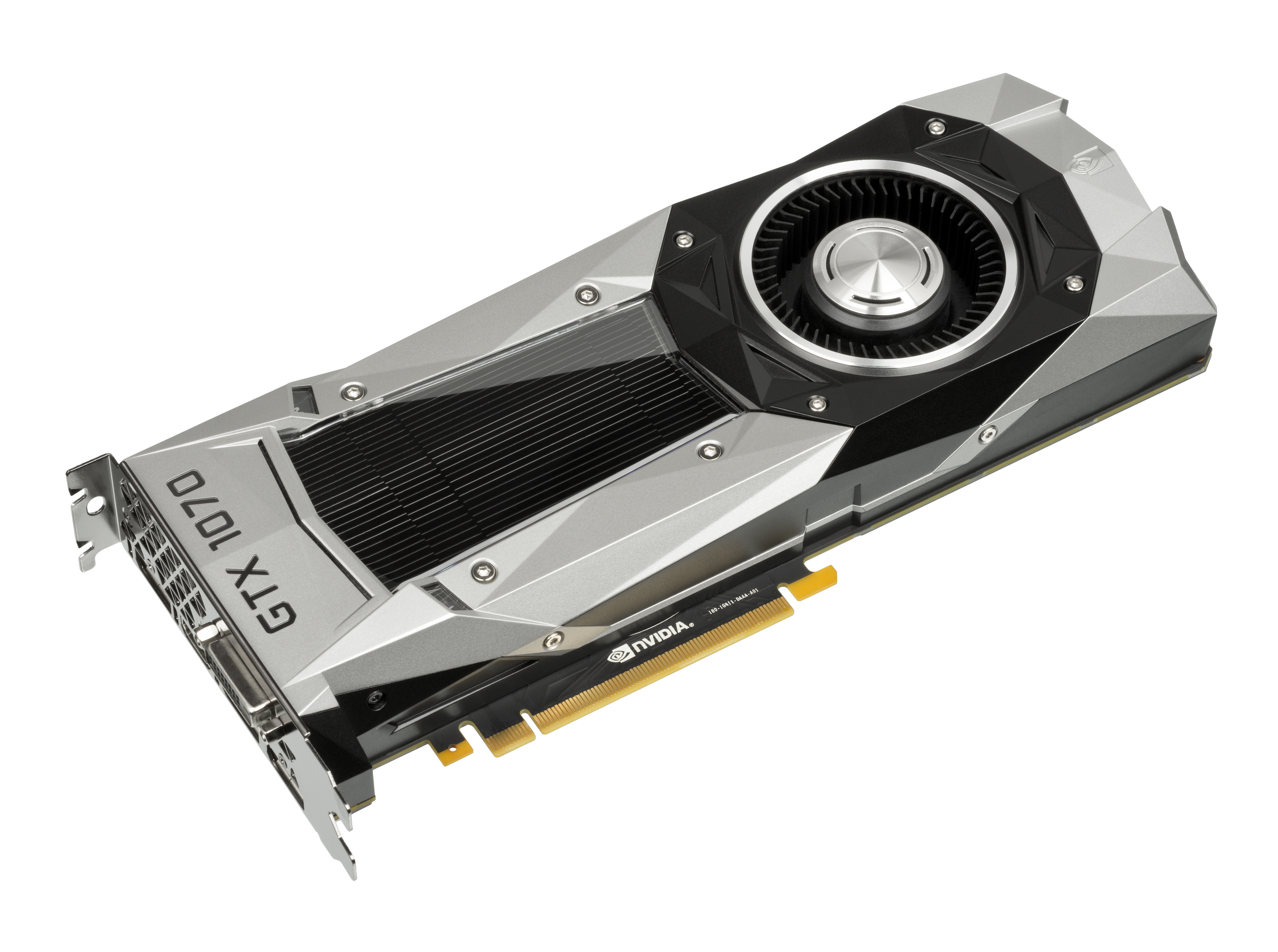 The NVIDIA GTX 1070 video card for desktop computers. This is the NVIDIA-designed reference card for the 1070 series, known as the Founders Edition, that retailed for $449 when it launched in June 2016. This card and the more powerful GTX 1080 are the first to use NVIDIA's 16nm manufacturing process, a large improvement over the 28nm manufacturing process that was used for years on the previous cards. The 1070 comes with 8 GBs of GDDR5 VRAM and has slightly better performance than the more expensive 980 Ti and Titan X cards from the previous generation.